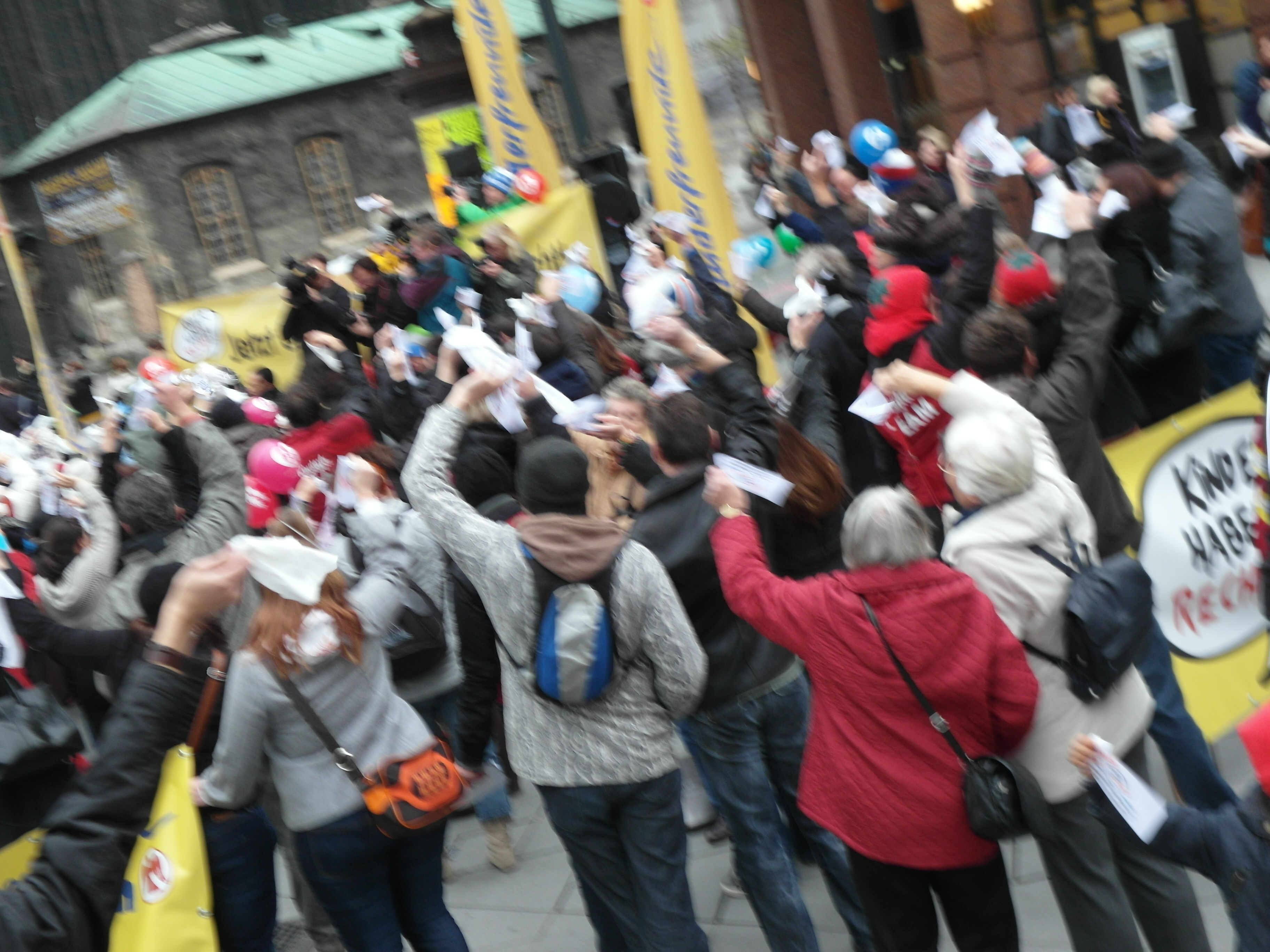 Austria, Vienna, Stephansplatz This shot was taken on "United Nations Children's Rights Day", on 'Stephansplatz', in Vienna, Austria. This one seems to be the first ever organized 'Smart Mob' on such occasion, although it was somewhat misnamed to be a 'flashmob'. Participants where asked to to lift any piece of white cloth during that time. This 'smart mob' happened for 60 seconds, beginning at 14:22 local time (13:22_Z). See also: Children's rights movement.